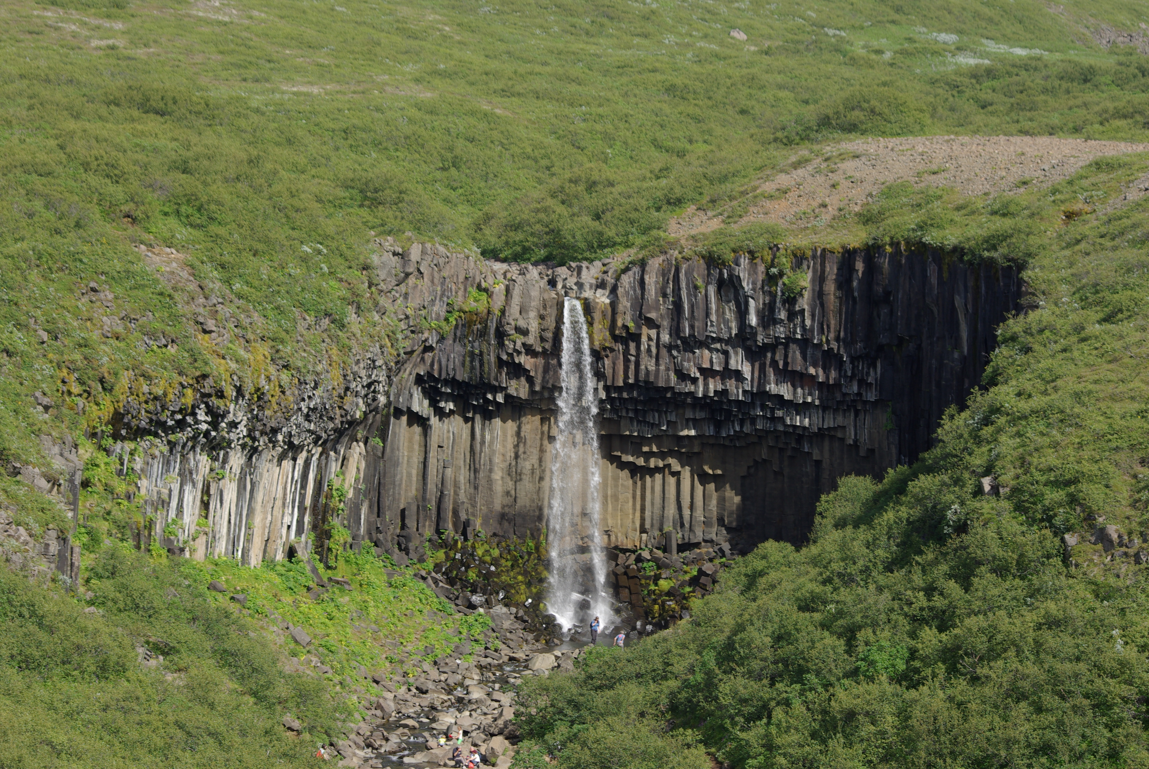 Picture of Svartifoss in Iceland taken from some distance